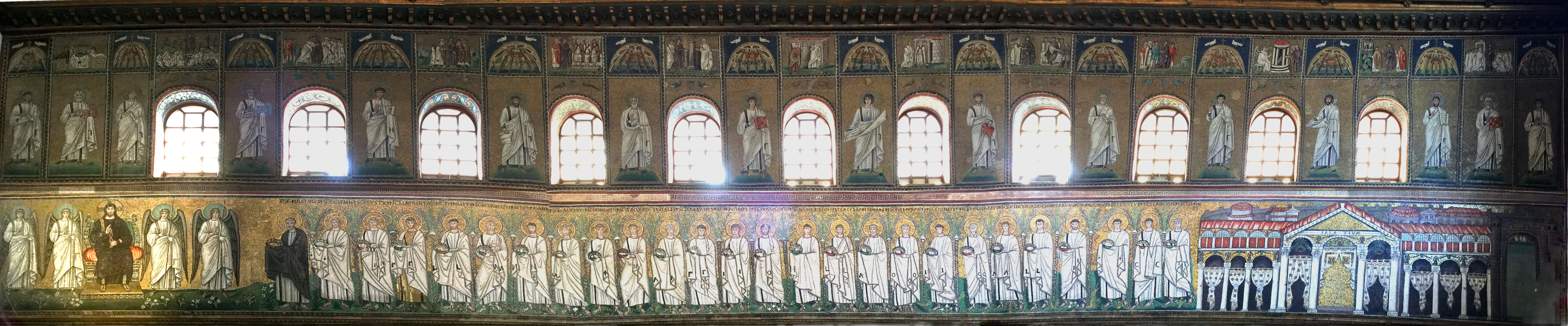 Panorama of the South nave wall mosaics at Sant Apollinare Nuovo, Ravenna, Italy